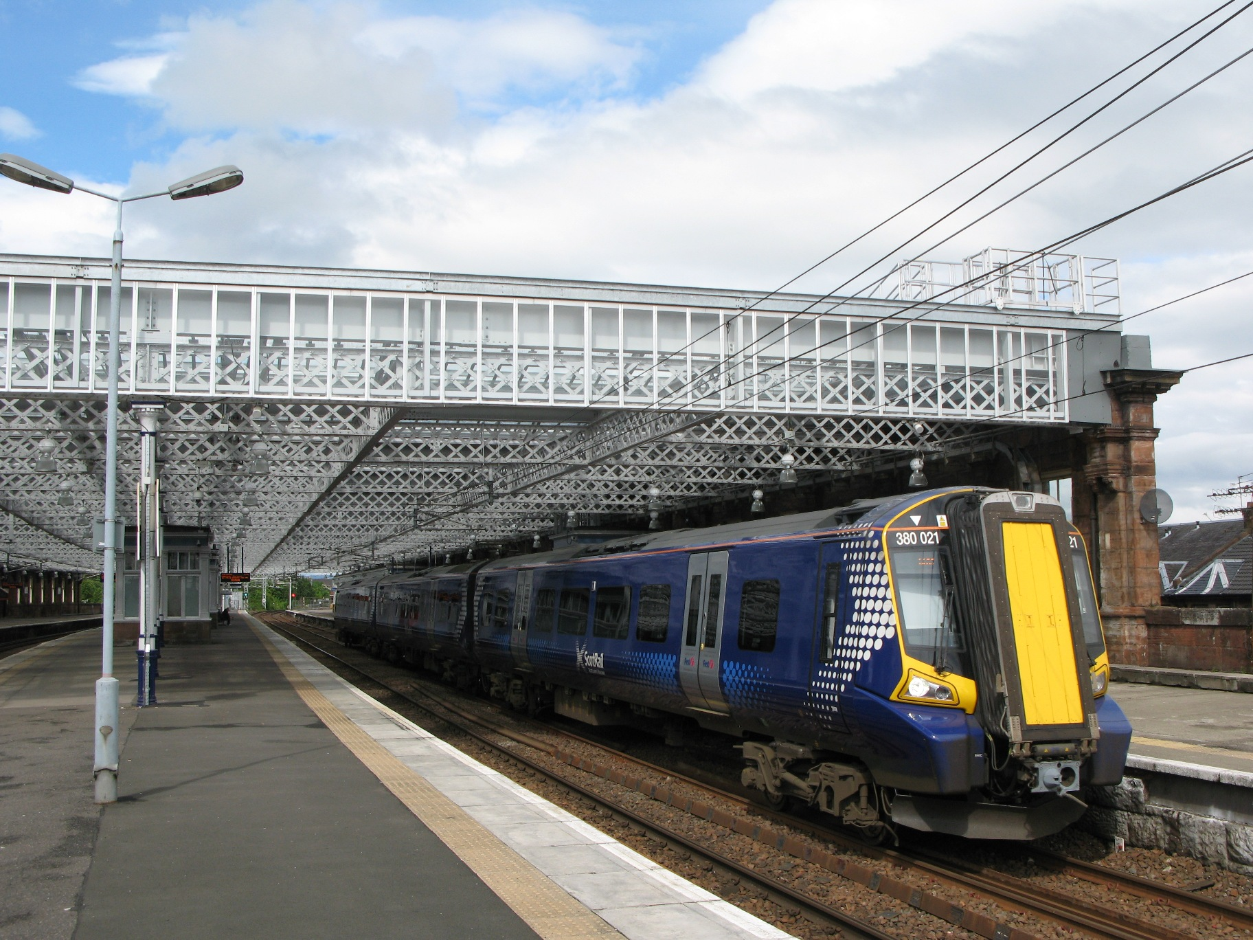 An Inverclyde Line service to Glasgow Central, formed by First ScotRail's 380021, pulls away from Gilmour Street station in Paisely, Renfrewshire, Scotland. The historic train shed roof had recently been refurbished.